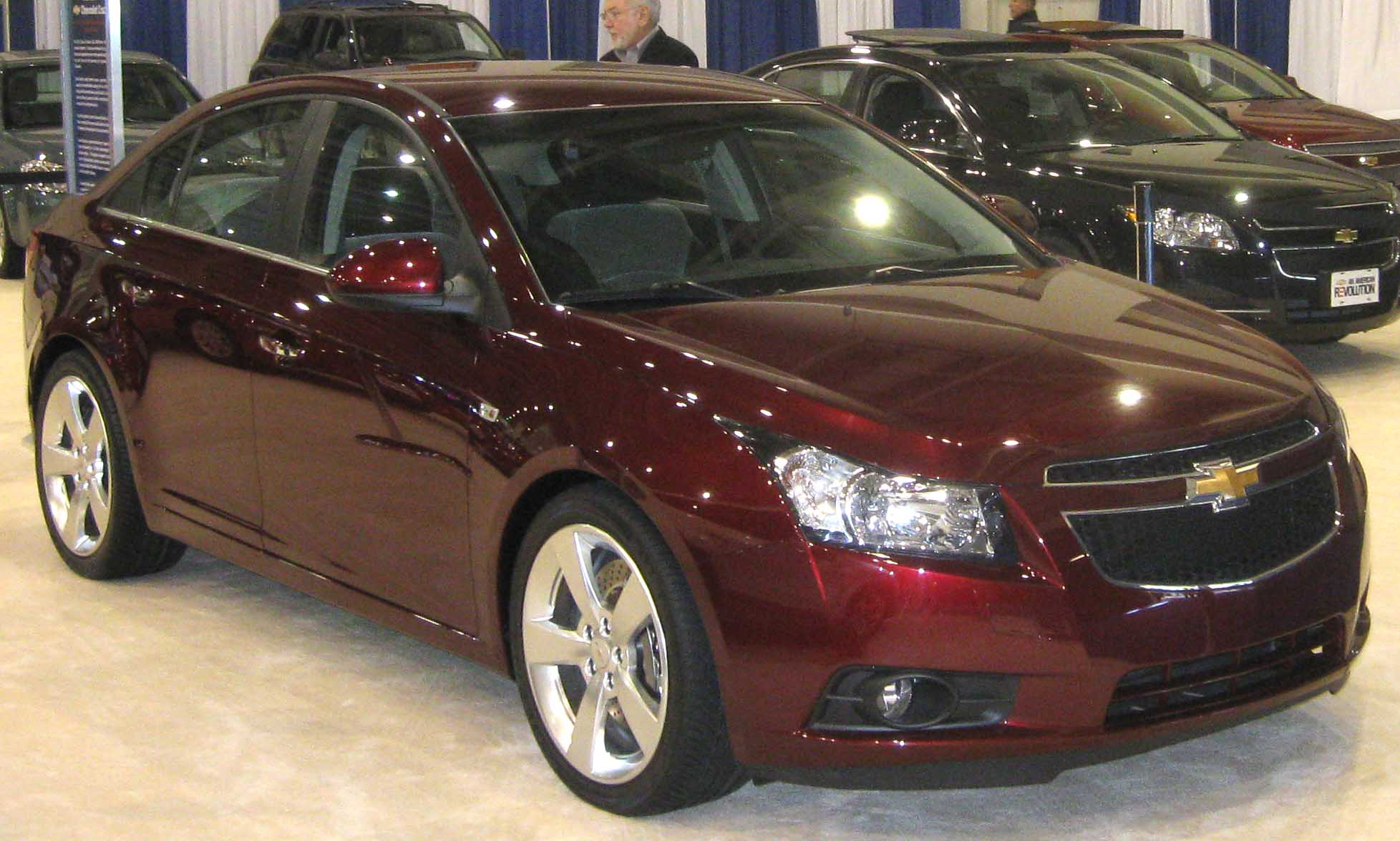 2011 Chevrolet Cruze photographed at the 2009 Washington DC Auto Show.